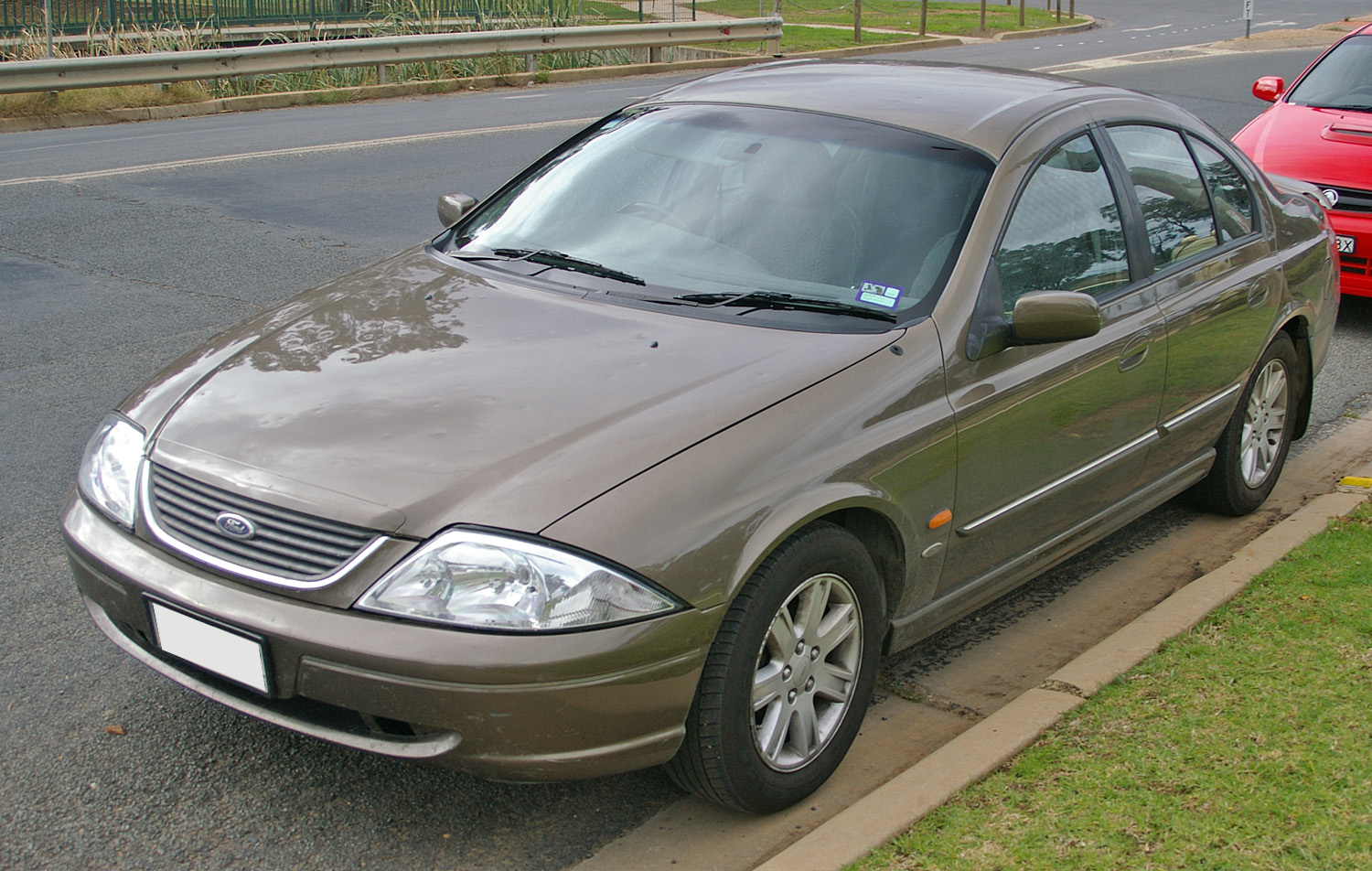 2000 Ford Falcon (AU II) Futura 75th Anniversary sedan. Photographed in Wagga Wagga, New South Wales, Australia.